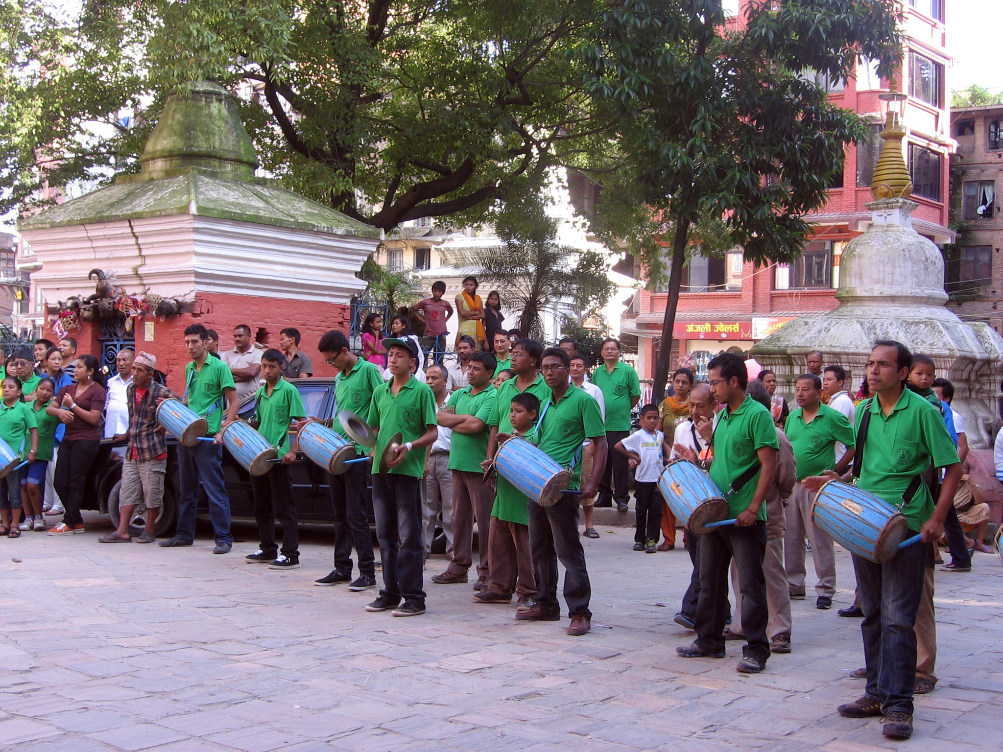 Tebaha Gunla Bajan Buddhist devotional musical society playing in Kathmandu.